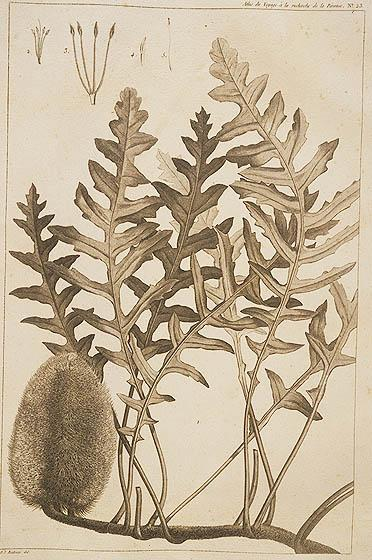 This is an image of Banksia repens (Creeping Banksia). It is Plate 23 from Atlas pour servir a la relation du voyage a la recherche de la Perouse by Jacques Labillardière.